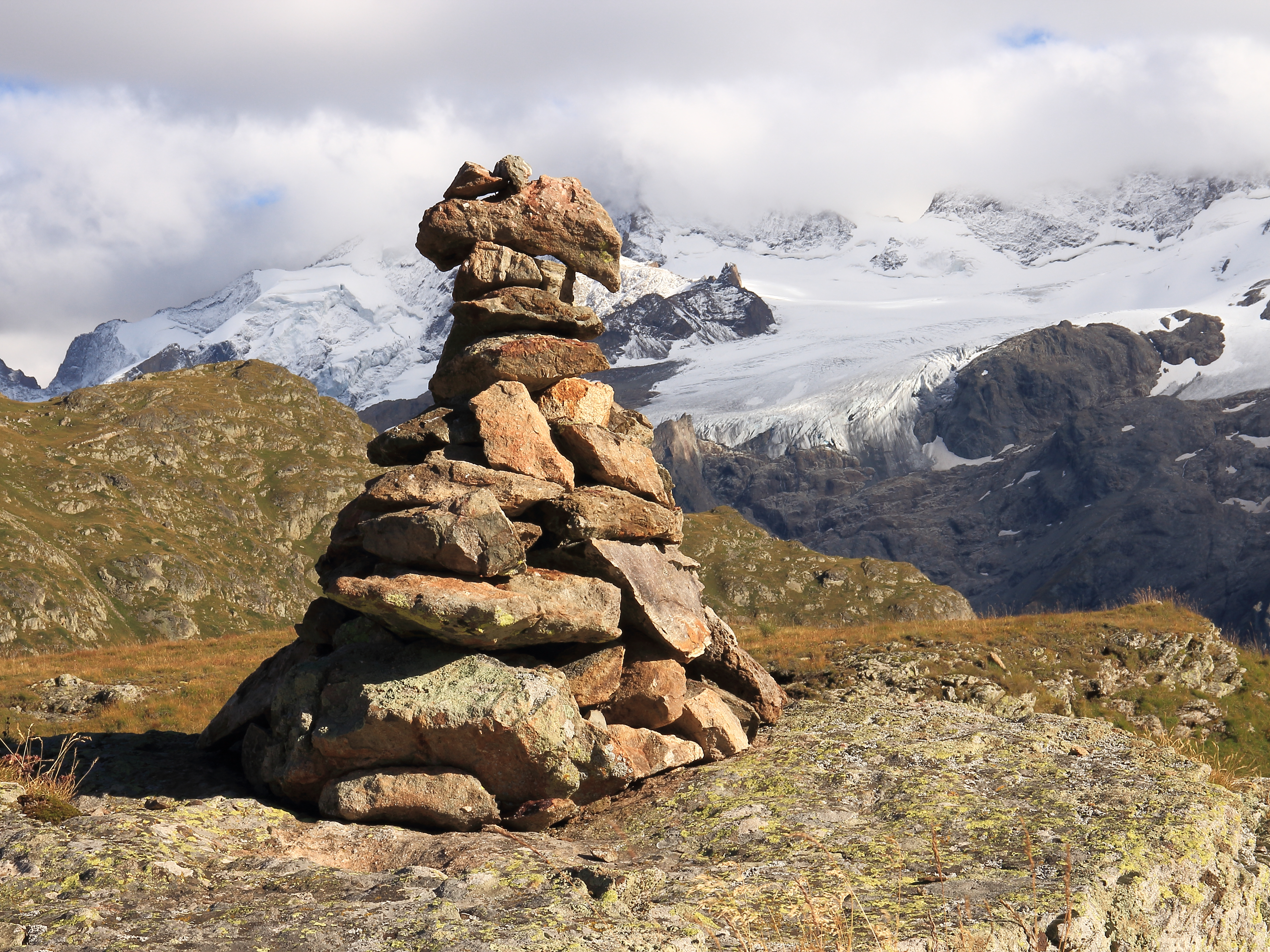 Plateau d'emparis, (2250 m.) cairn.